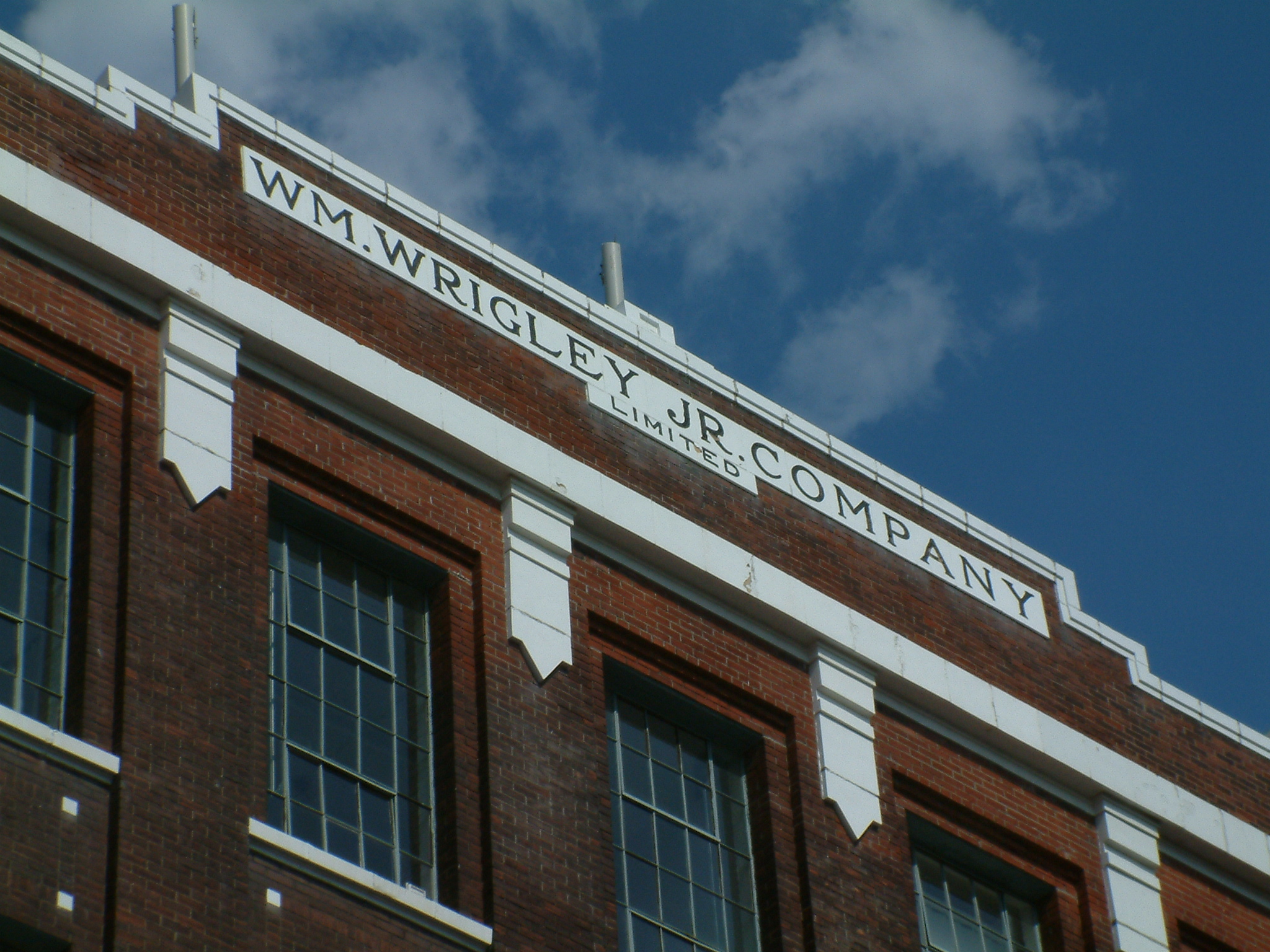 A detail of the Wrigley Lofts building located in Toronto, Canada